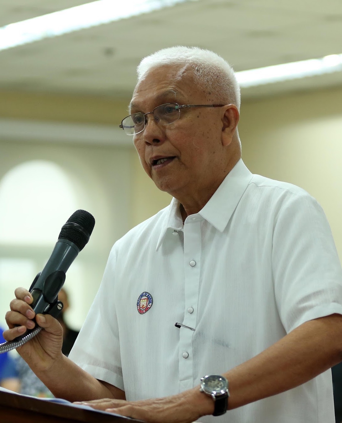 Portrait of Leoncio Evasco, Jr., Cabinet Secretary to Rodrigo Duterte, addressing employees of the Malacañang Palace. The original caption is as follows: “ Cabinet Secretary Leoncio B. Evasco, Jr. delivers a welcome address during the Monday flag ceremony of Malacañang employees at the Social Hall, Mabini Building in Malacañang Complex. Ace Morandante/PPD ” This file has been extracted from another file: Leoncio Evasco, Jr. addressing Malacañang employees.jpg